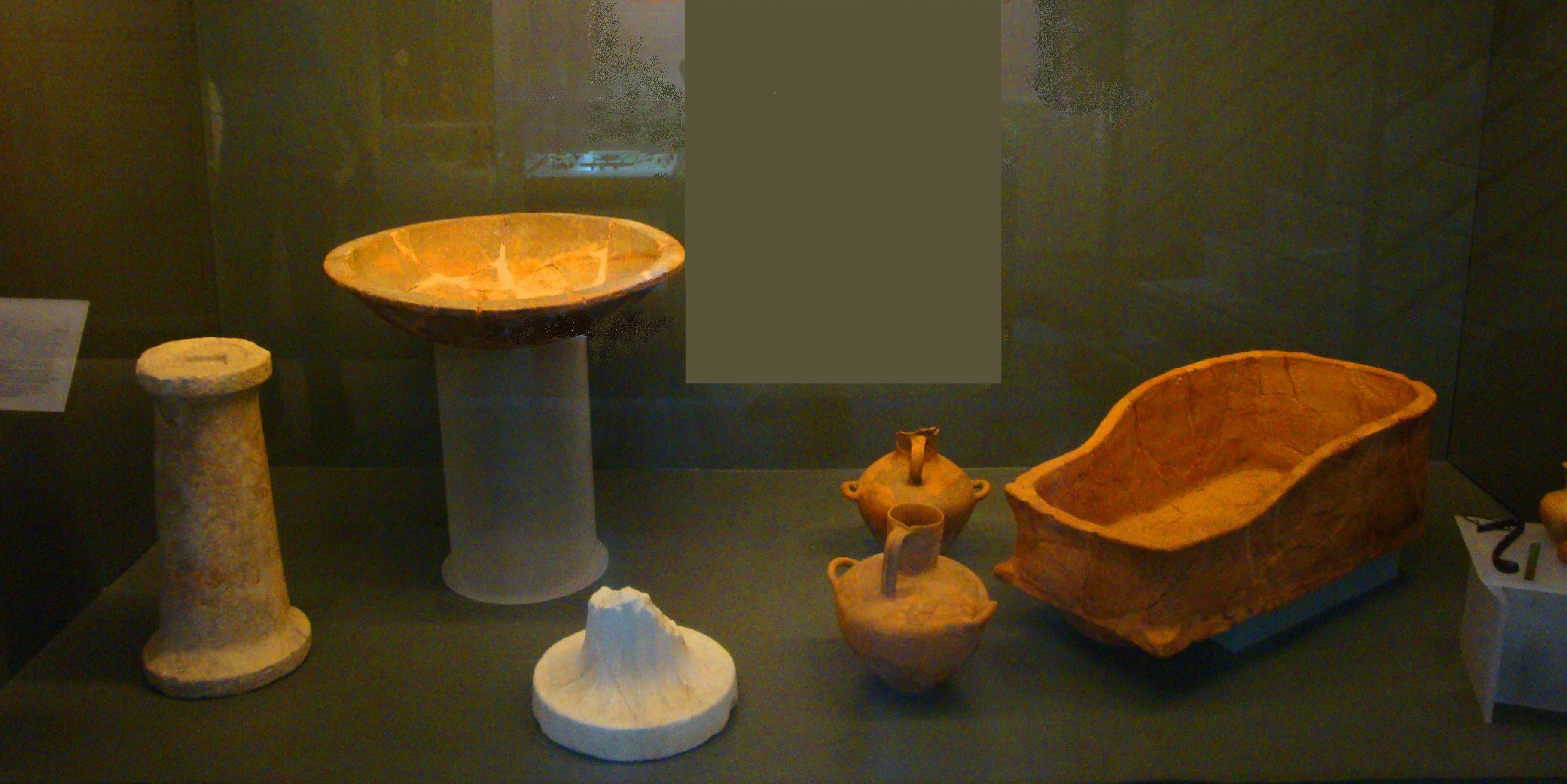 Elea, Thesprotia, Greece, ancient Greek clay bath vassels, 400-200 BC, Archaological Museum of Igoumenitsa, Greece